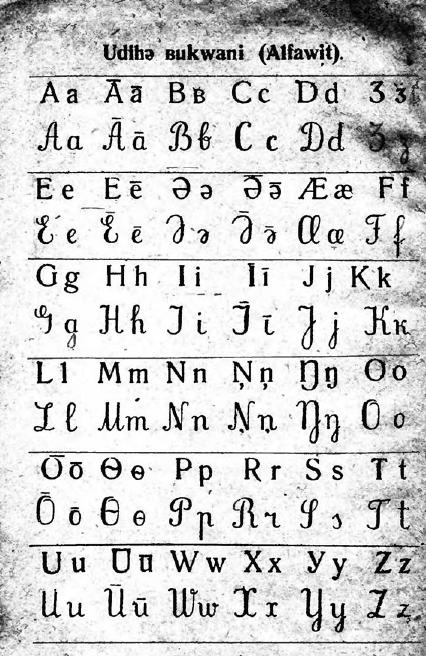 Udehe latin alphabet from primer (1932)